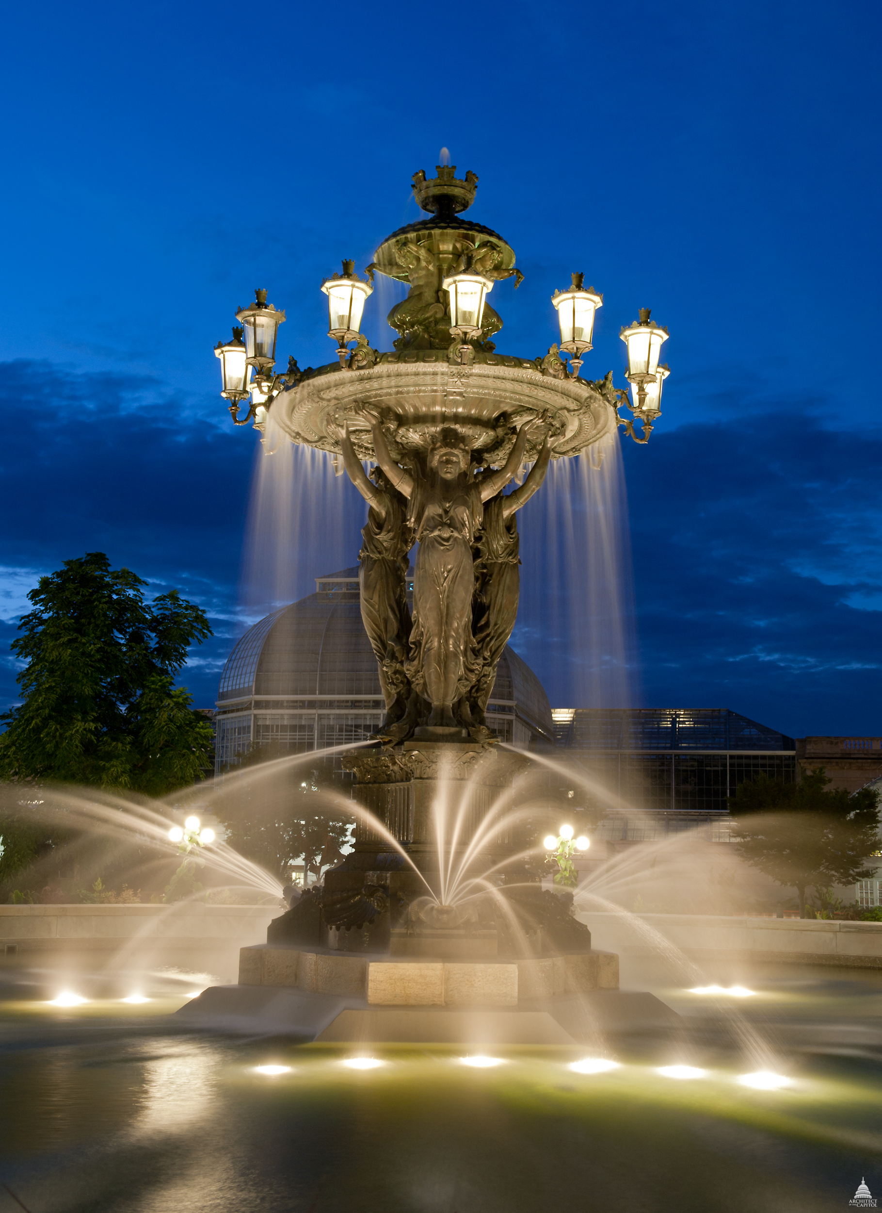 In 1877 the United States purchased Frédéric Auguste Bartholdi's "Fountain of Light and Water" – commonly called the Bartholdi Fountain. Beginning in 2008, the Architect of the Capitol undertook a complete off-site restoration of the cast-iron fountain and made numerous improvements to the basin within Bartholdi Park. The fountain returned to Bartholdi Park in May 2011, and the park is open to the public. For more information on Bartholdi Fountain visit: This official Architect of the Capitol photograph is being made available for educational, scholarly, news or personal purposes (not advertising or any other commercial use). When any of these images is used the photographic credit line should read “Architect of the Capitol.” These images may not be used in any way that would imply endorsement by the Architect of the Capitol or the United States Congress of a product, service or point of view. For more information visit